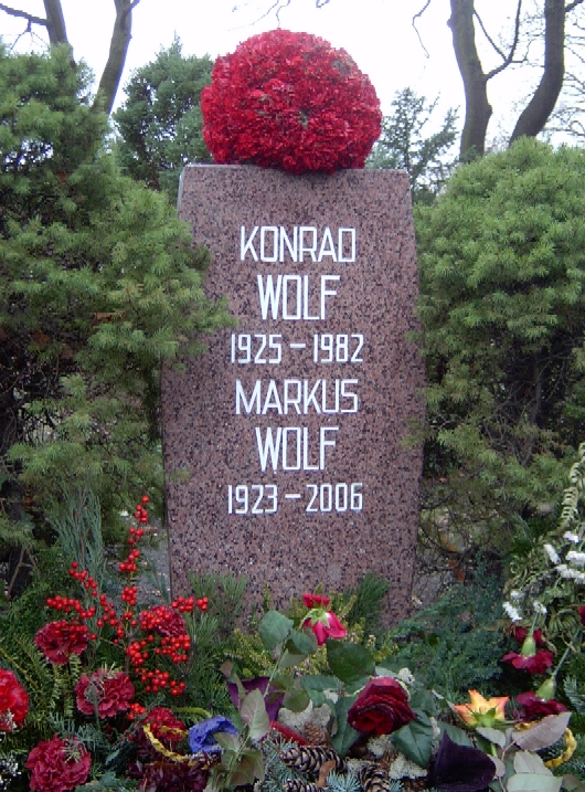 Grave of Konrad and Markus Wolf on Zentralfriedhof Friedrichsfelde in Berlin